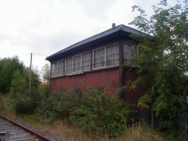 Glanaman Signal Box. This is a disused signal box along the mineral line that runs up the Amman Valley. Although technically still in use, the vegetation growing between the tracks on this railway line make it obvious that this railway hasn't seen trains for a number of years.